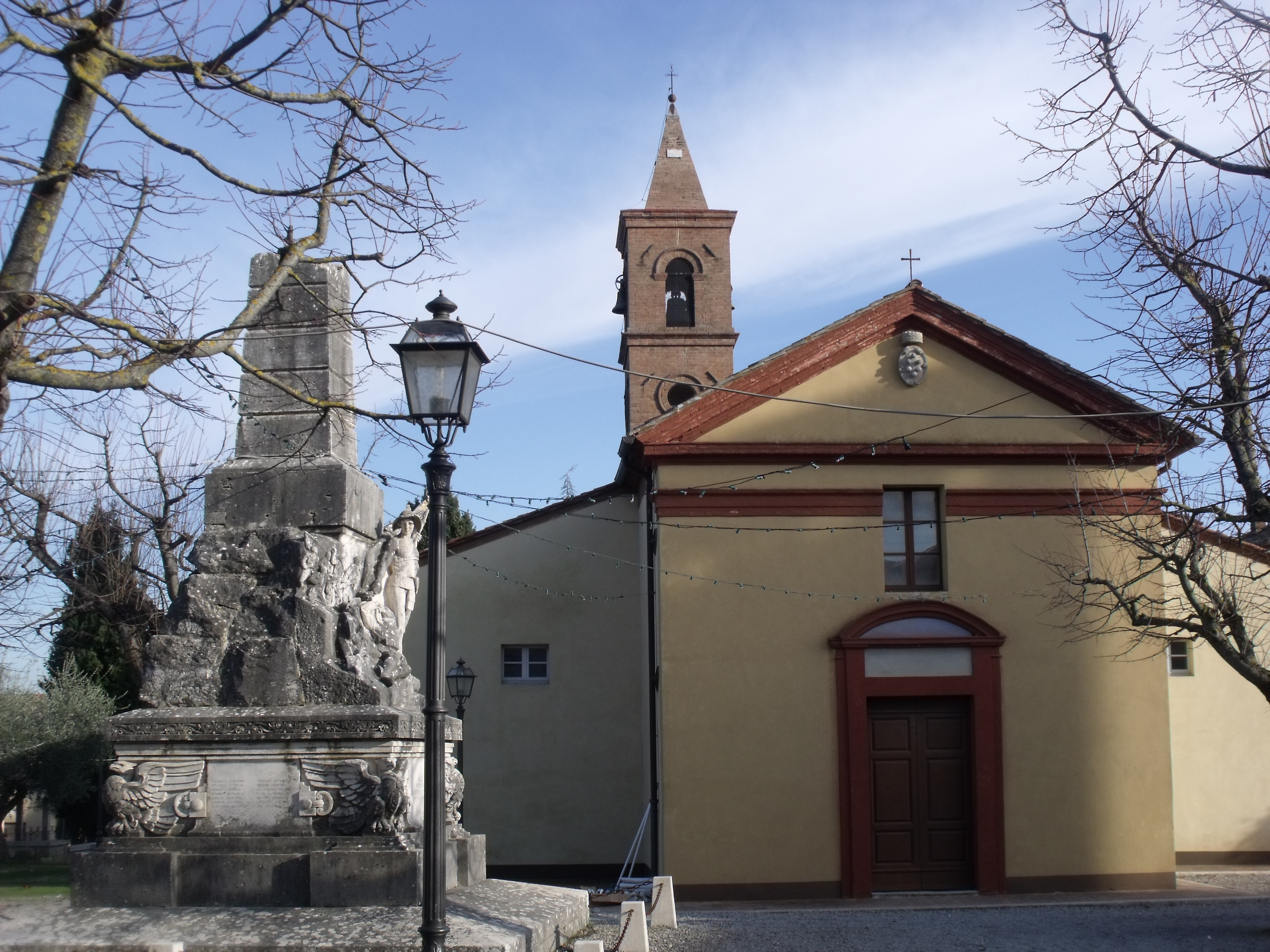 Ex-Church of San Lazzaro with the monument Monumento ai Caduti in Piazze, hamlet of Cetona, Province of Siena, Tuscany, Italy